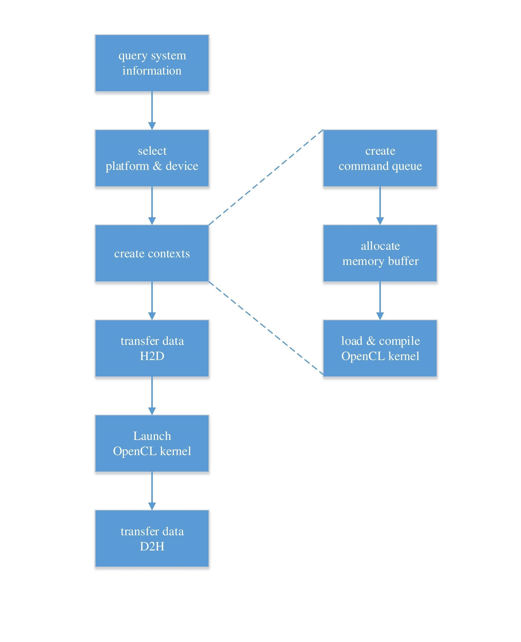 The execution flow of launching a OpenCL kernel